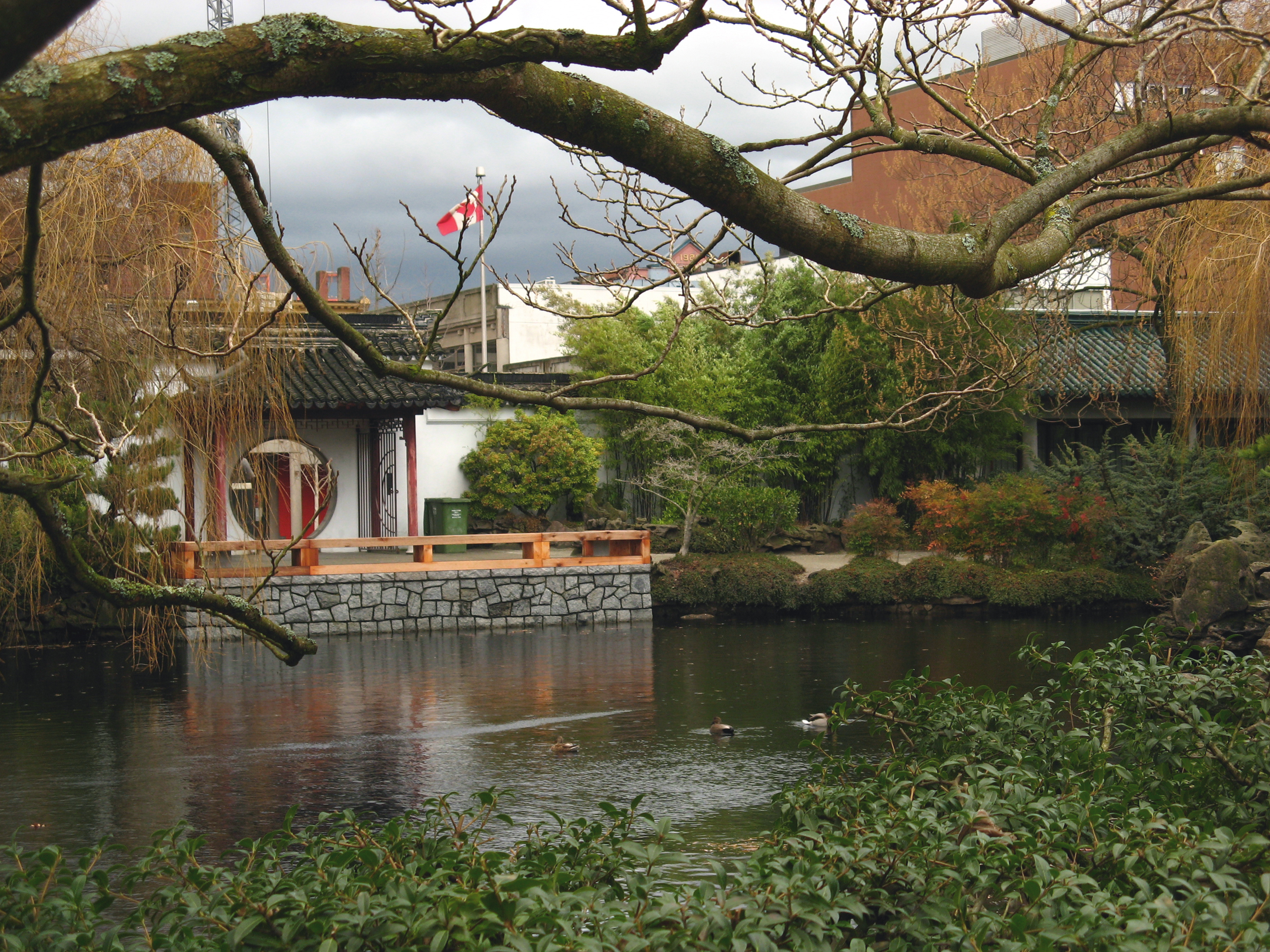 Dr. Sun Yat-Sen Garden in Vancouver, Canada, taken 11 December 2006 by me.